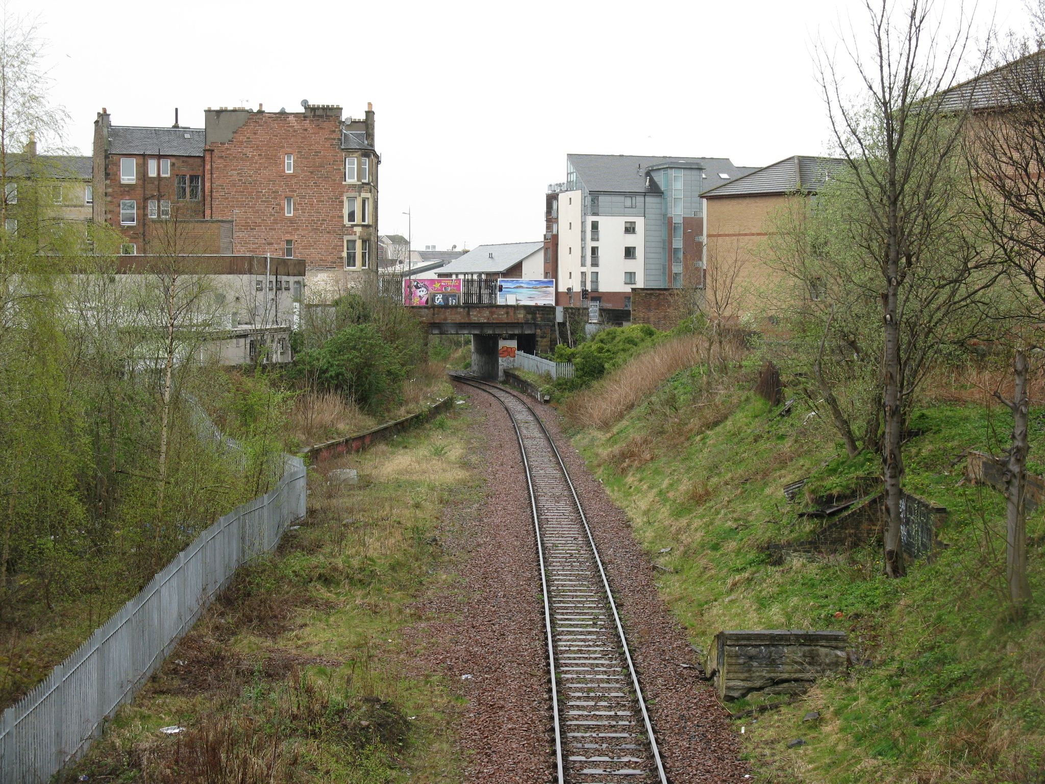 A view looking west from Crawford Bridge, over the site of Easter Road Station, the line that once went to Granton now terminates at the Powderhall refuse depot.